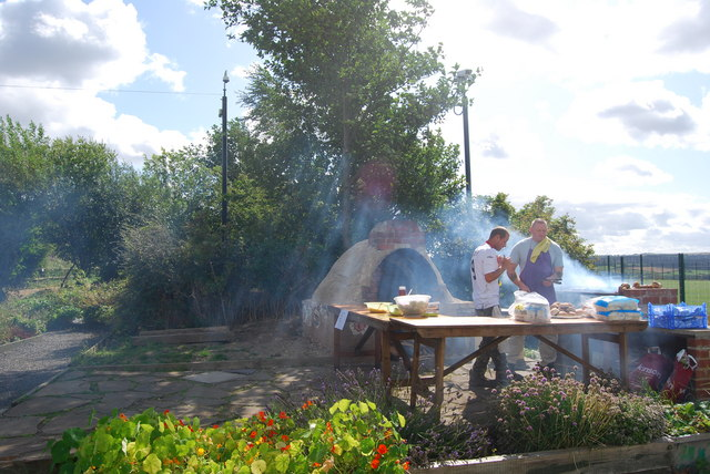 Scotswood Community Garden, Newcastle upon Tyne Harvest open day. This community garden was started in 1994 on the site of a former drift mine, and was originally called the Drift Permaculture Project. It has open days a number of times a year and the one today was to celebrate the coming harvest. The home made bread oven wasn't in use but the sausages and burgers smelt very good